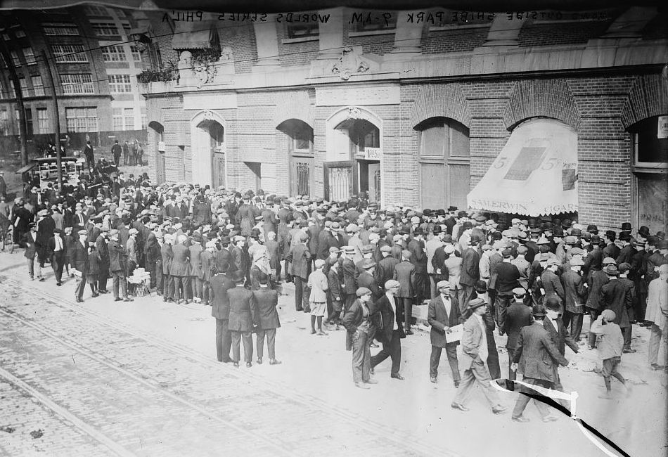 Shibe Park box office, "9 am", during 1911 World Series, showing head of line down Lehigh Ave, Philadelphia